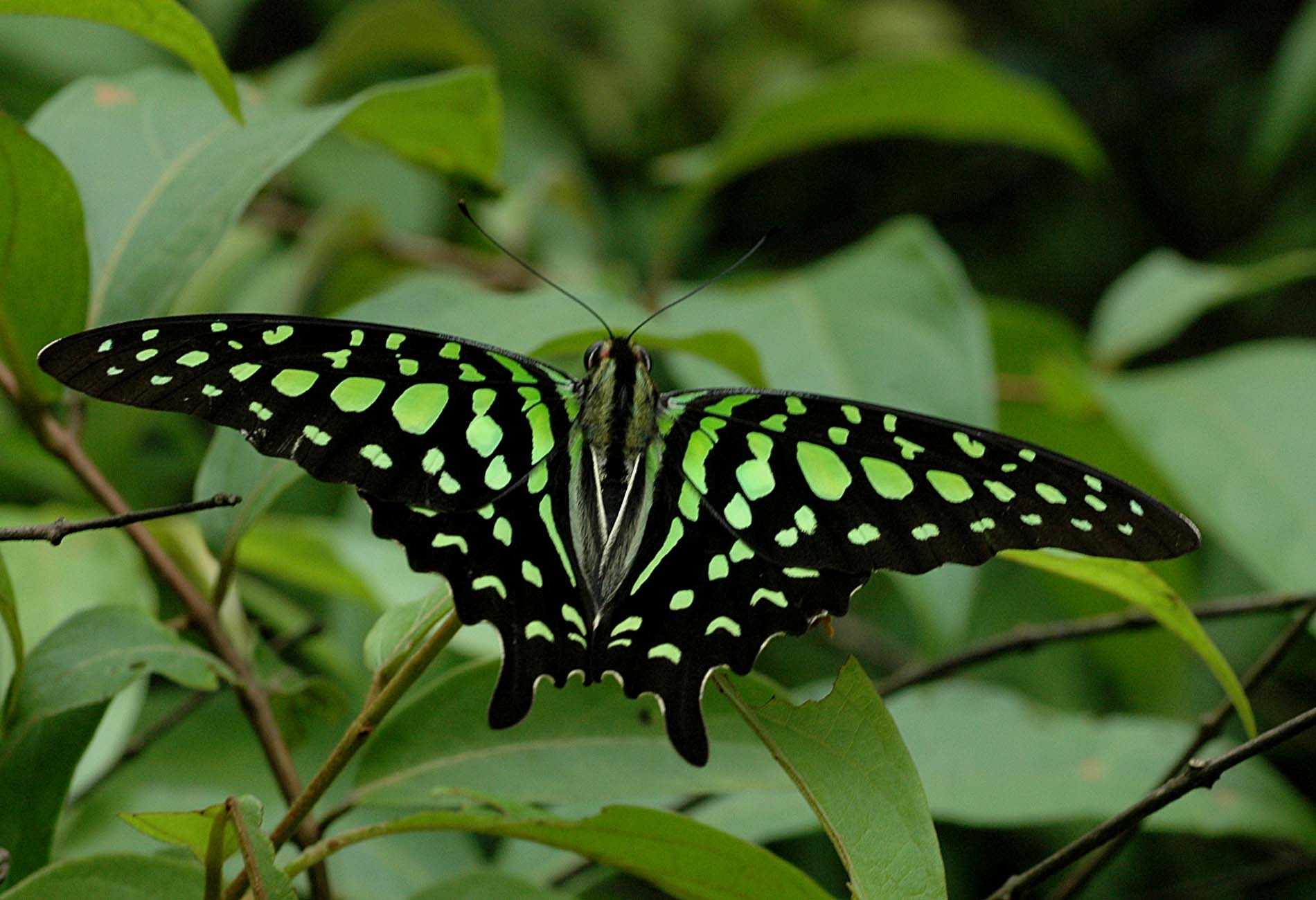 Tailed Jay basking